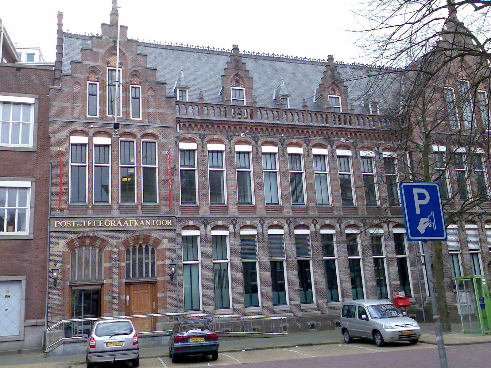 Leeuwarden, former Head Post Office, now Grand hotel Post-PlazaFrysk: Ljouwert, eardere haadpostkantoar